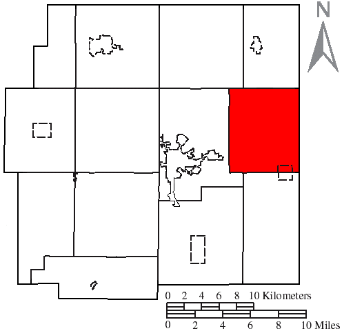 Made by the US Census and modified by myself